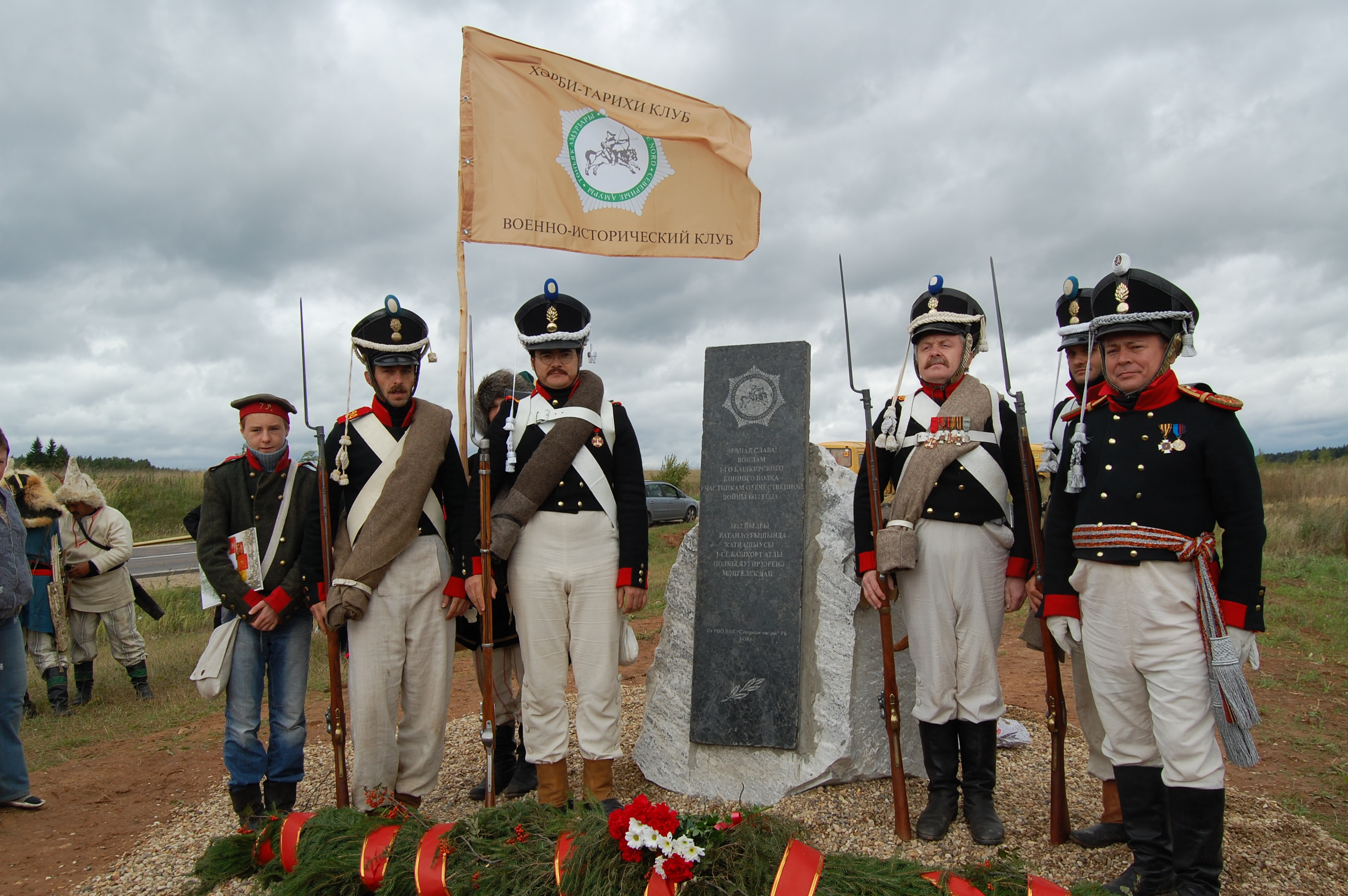 Members of the "North Amurs" Military Histiry Club inaugurates monument to the soldiers of the 1st Bashkir regiment, members of the Patriotic War of 1812.